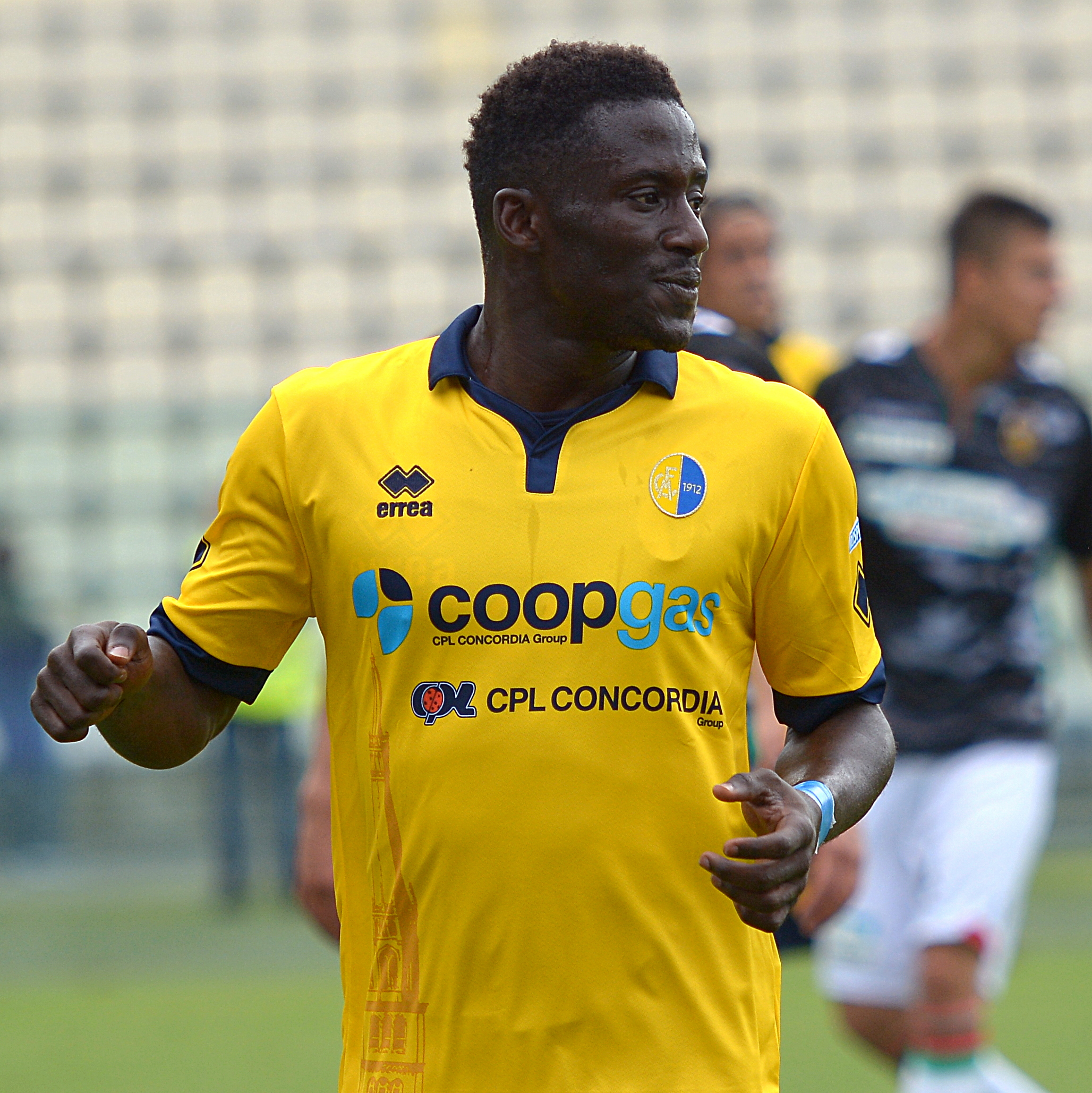 Maxwell Acosty in action during Modena - Ternana